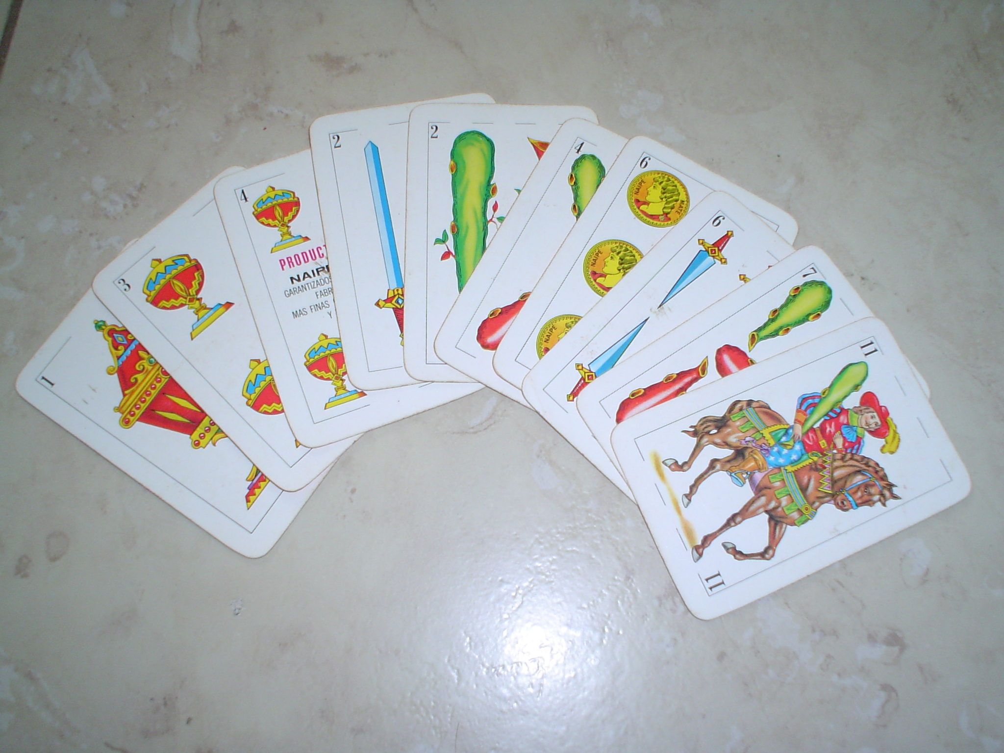 I took this picture of a spanish deck of cards.